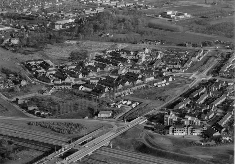 Luchtfoto vanuit het zuidwesten van de A2 in Maastricht ter hoogte van de Oeslingerbaan in 1982. Links de woonwijk Eyldergaard in aanbouw; rechts De Heeg. Op de achtergrond v.l.n.r. Heer, Klooster Opveld en het Jeanne d'Arccollege. Fotocollectie RHCL Maastricht, GAM 10321.